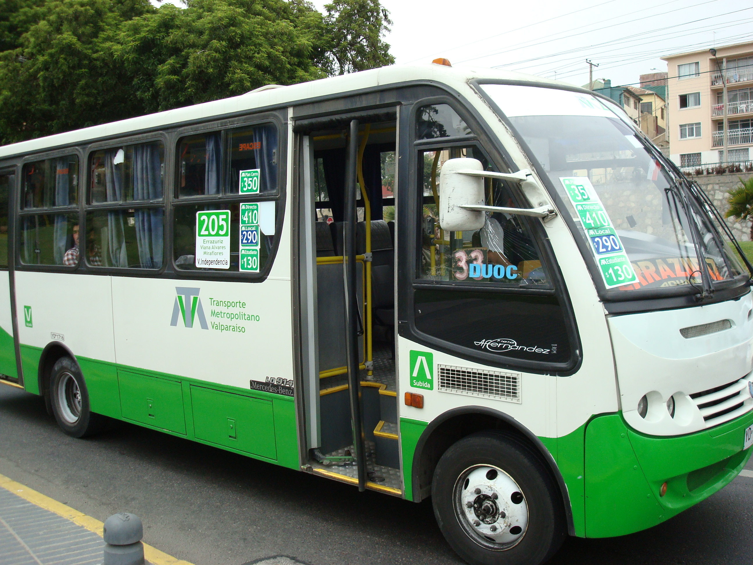 Bus (#33) with Mercedes-Benz LO 914 chassis in Valparaíso, Chile. Transporte Metropolitano Valparaíso operator, line 205.